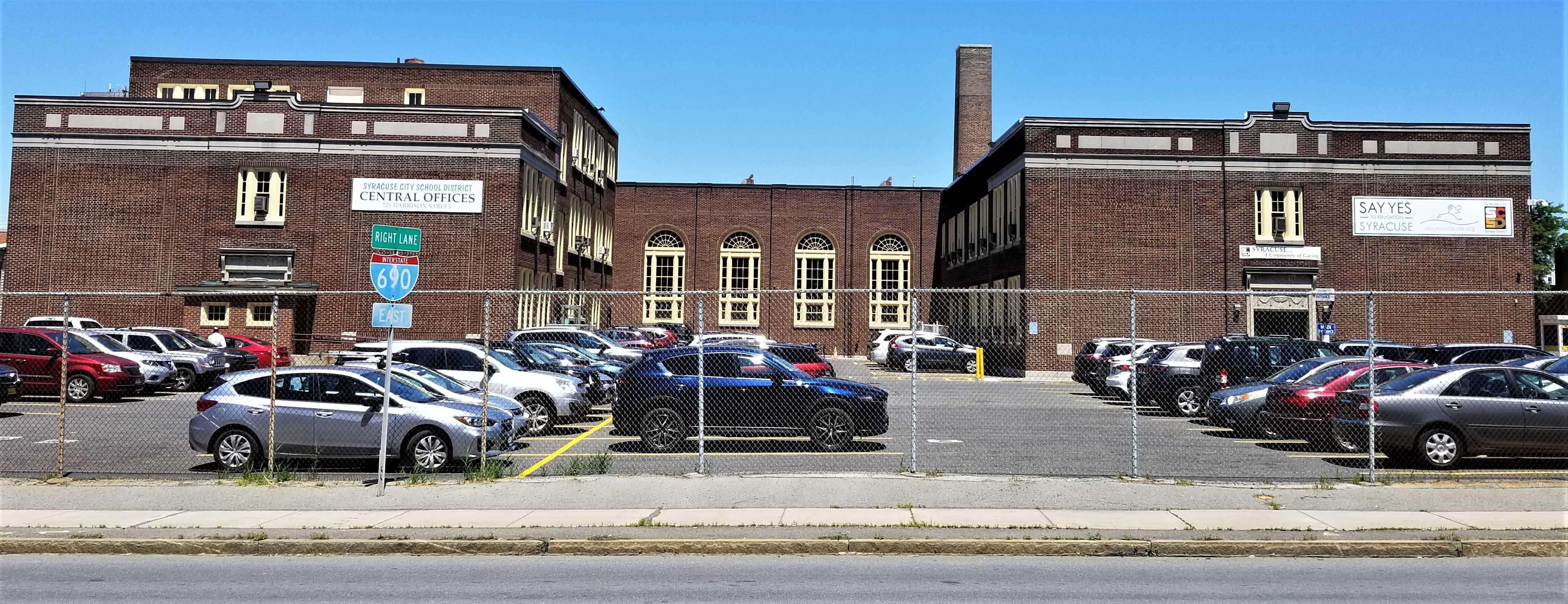 Syracuse City School District, Central Offices, Harrison St., Syracuse, New York